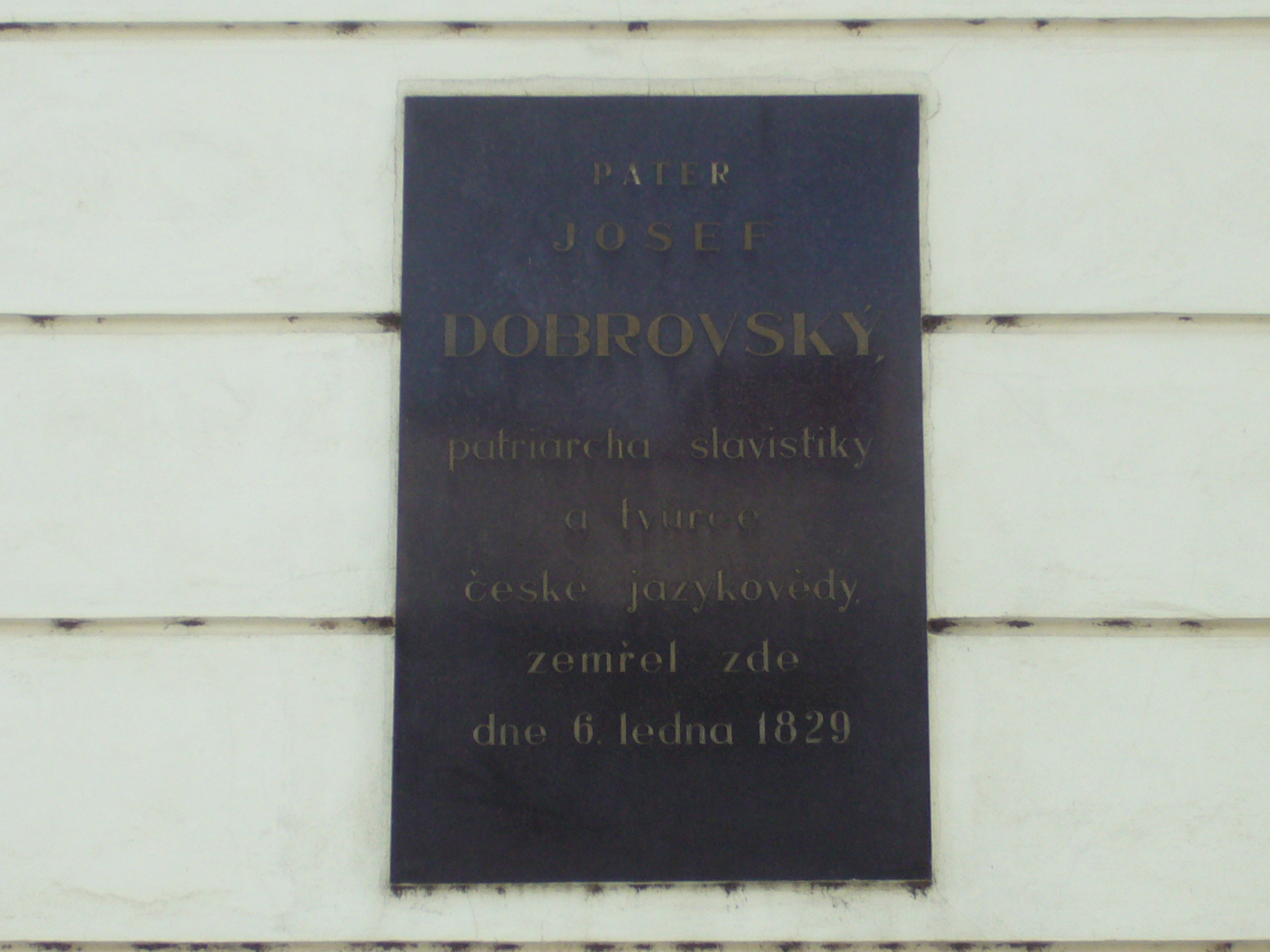 Josef Dobrovský commemorating plaque.